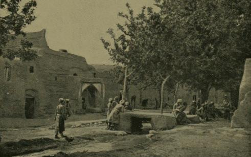 The pretty village with the euphonious name of Meyameï